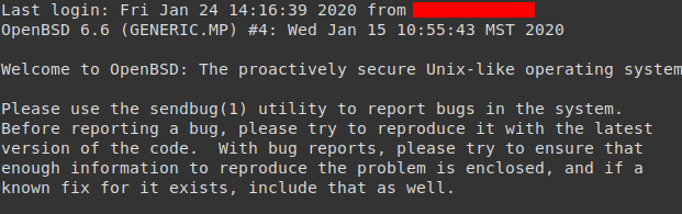 OpenBSD 6.6 Default MOTD with a censored IP (red banner)